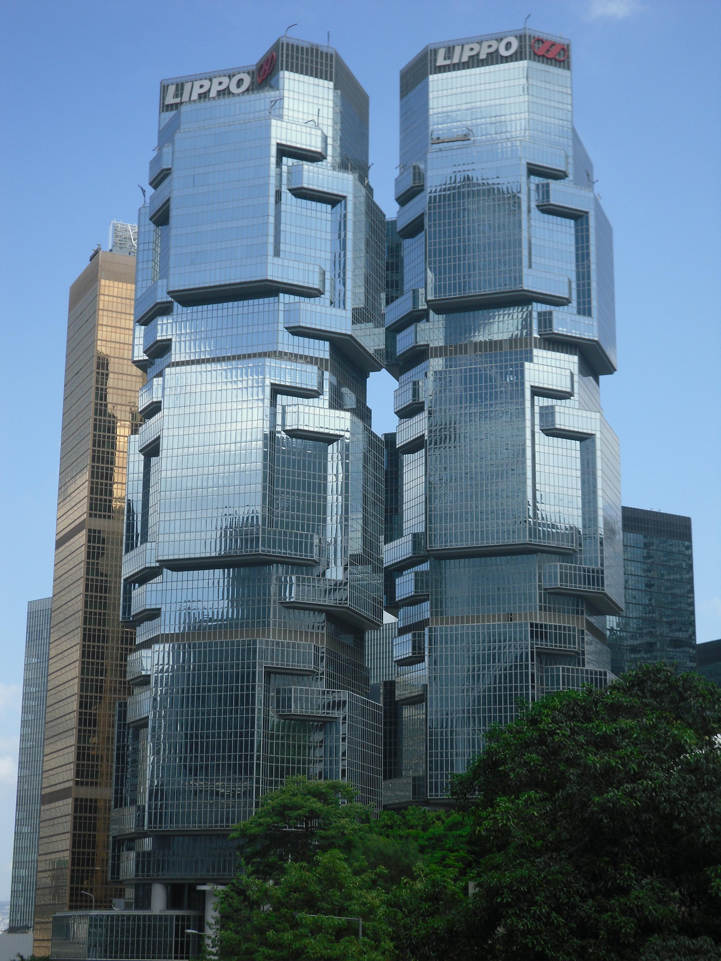 Hong Kong Lippo Center